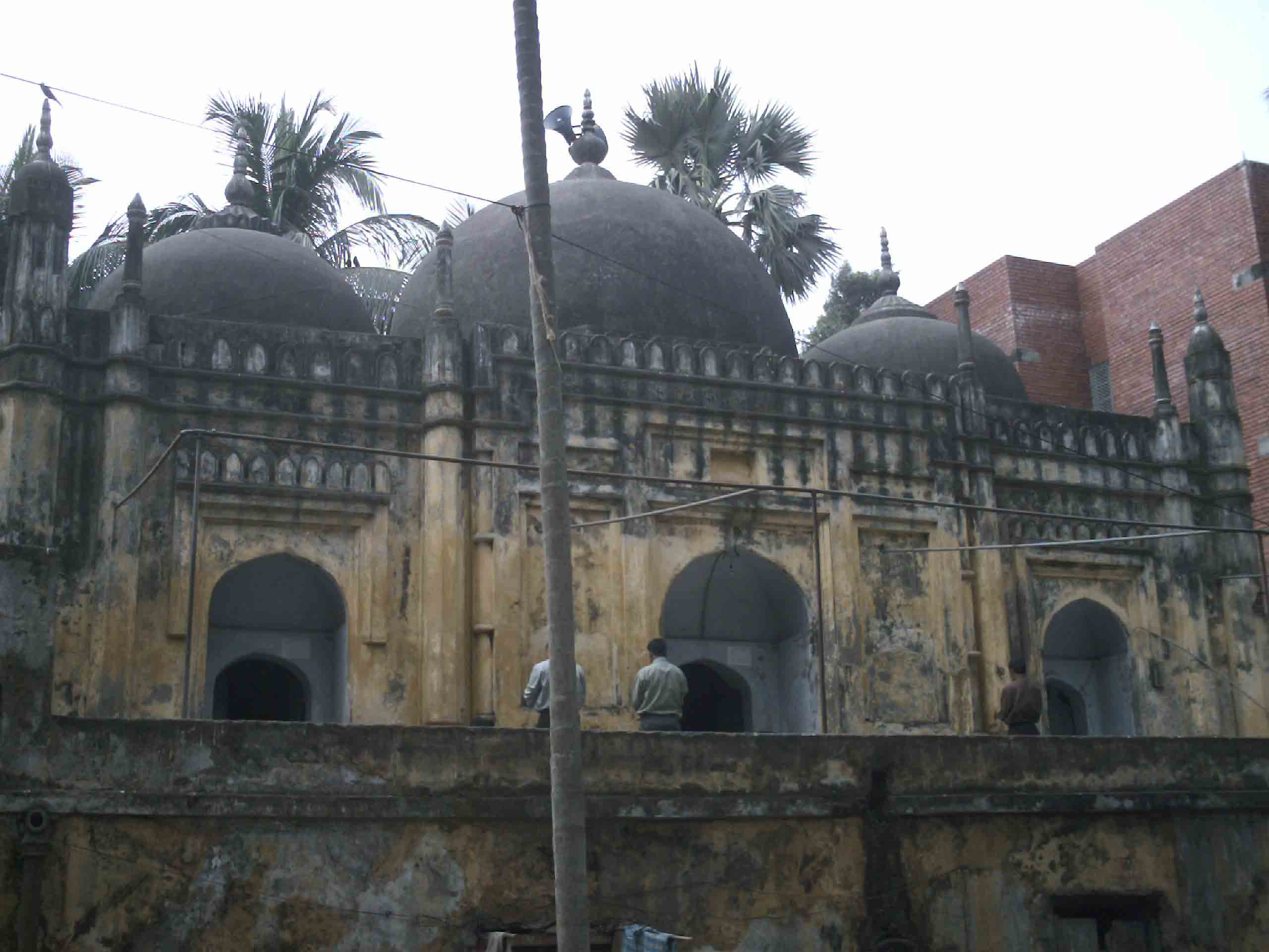 Source: I took this picture. Location: Curjon Hall, University of Dhaka.